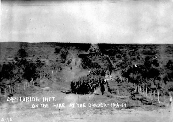 (Now 124th Infantry) 2nd Florida Infantry Regiment on the border in 1916-1917. N030654